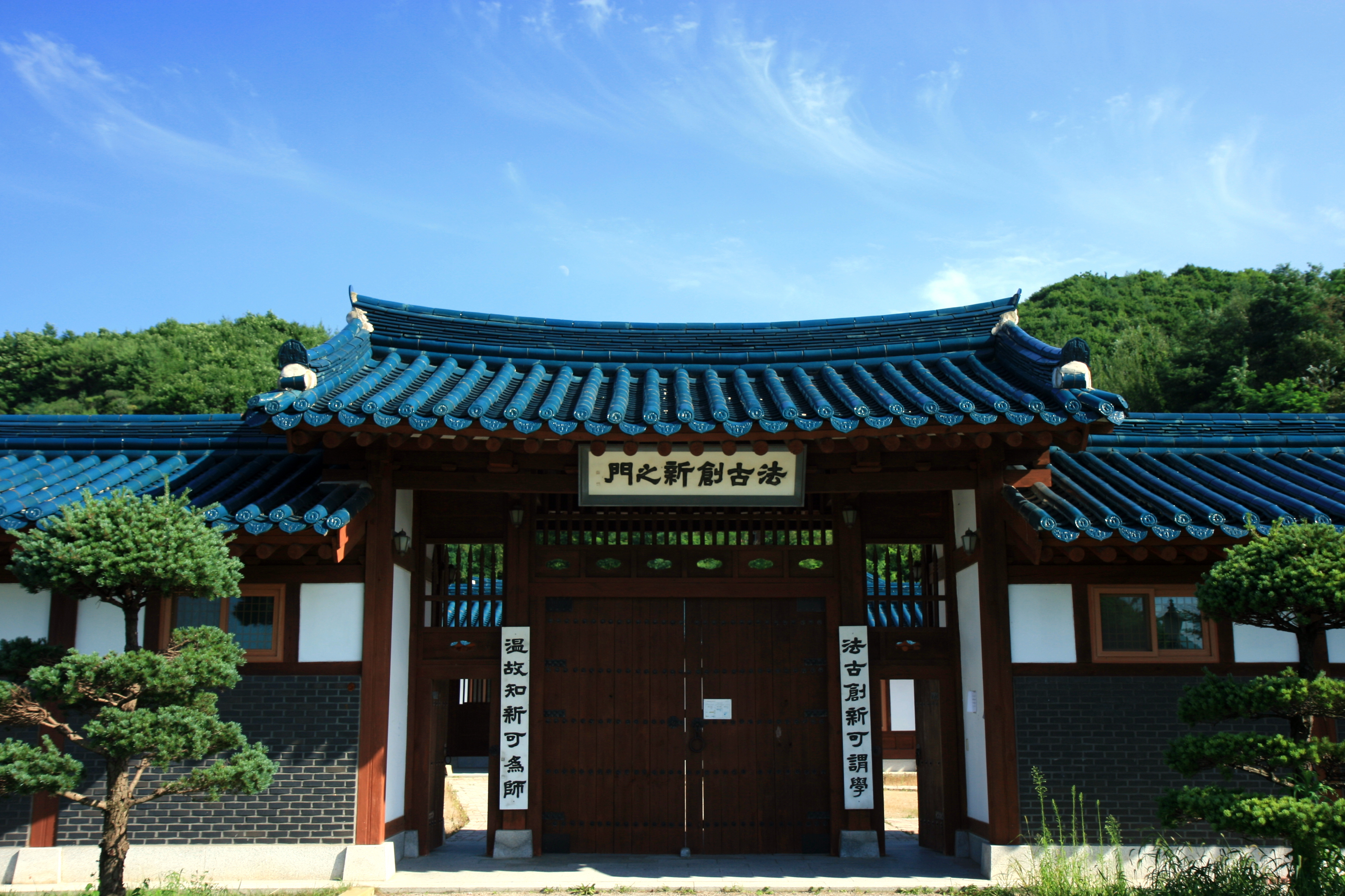 South-face shot of the main entry to the Minjok culture center (민족교육관), home to the school's domestic preparatory program, Korean Minjok Leadership Academy